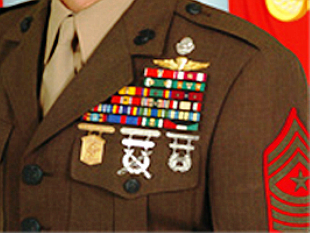 Image of U.S. Marine Corps Ribbons and Badges worn on the Marine Corps Service Dress Uniform.